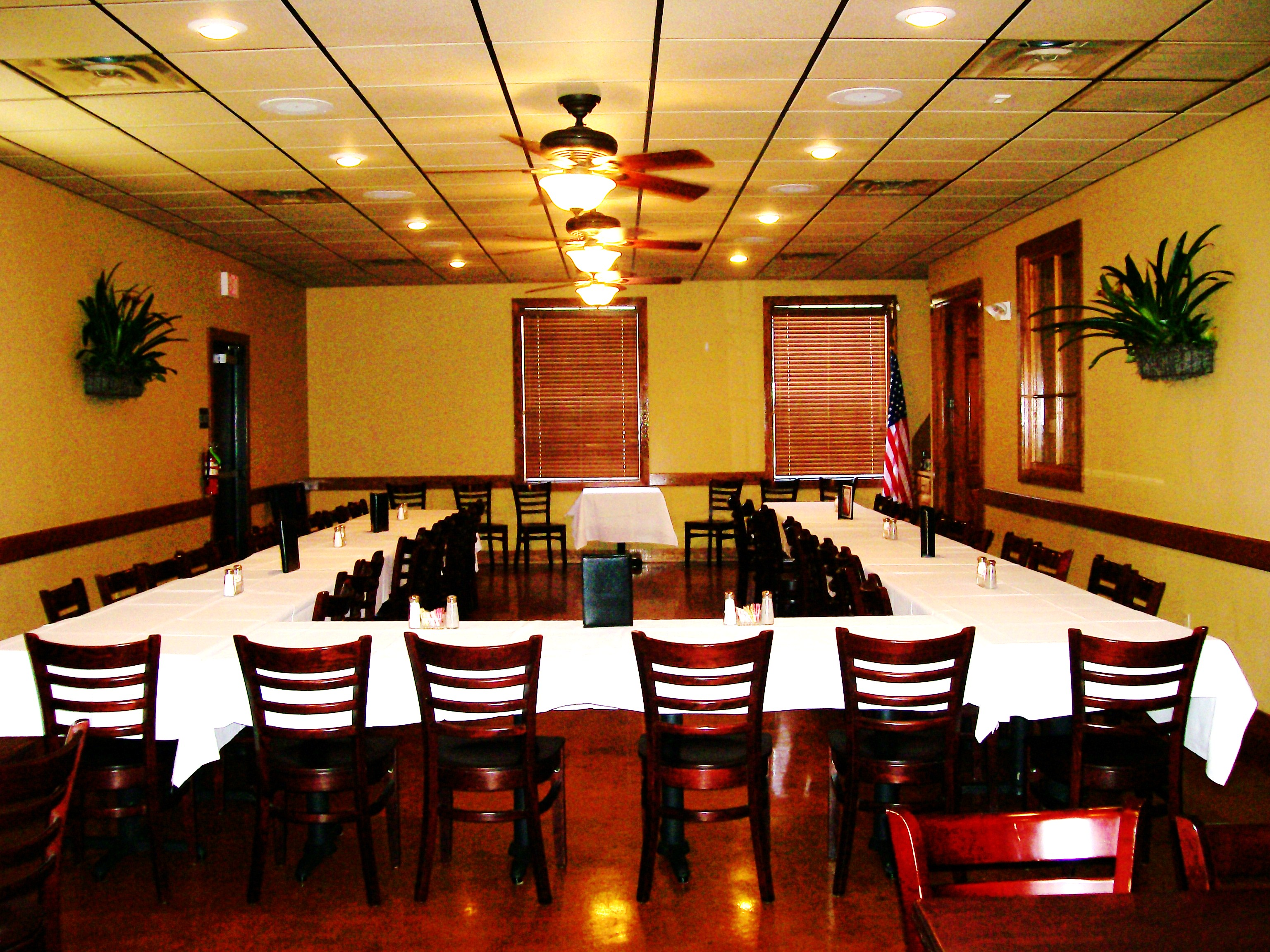 Banquet room